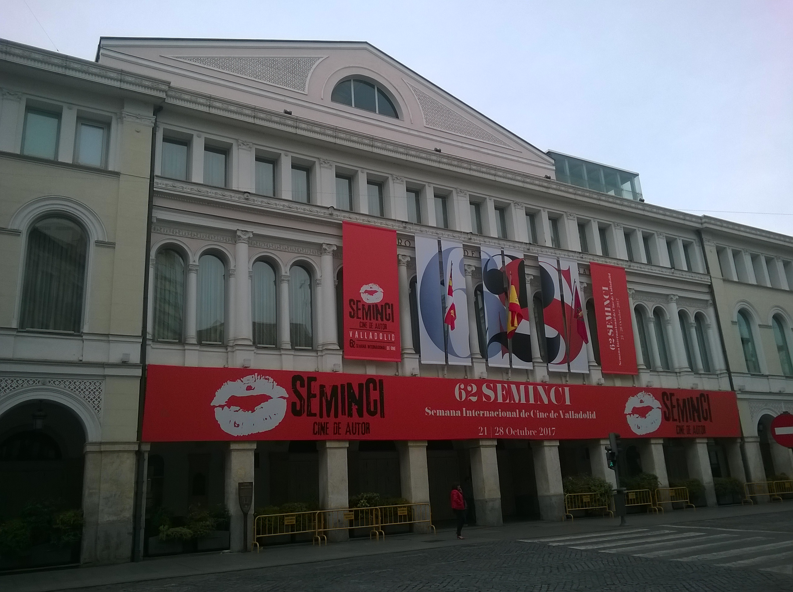 Outside of the Teatro Calderón in Valladolid (Spain) during the 62nd Seminci (2017)